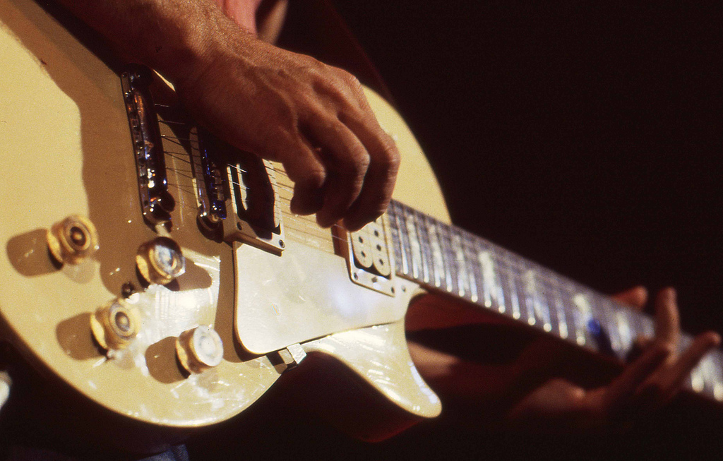 Al Dimeola playing the guitar "fingerstyle", without a plectrum or "pick". Performance in The Netherlands. 1969 Gibson Les Paul Standard or Deluxe pickups were replaced with DiMarzio Super Distortion, as seen on the album cover of “Casino”